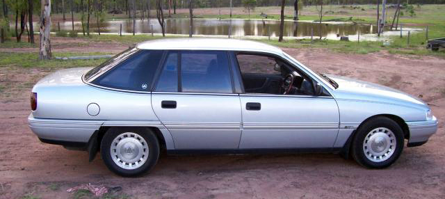 1990-1991 Holden Statesman (VQ) with Caprice alloy wheels, photographed in Australia.